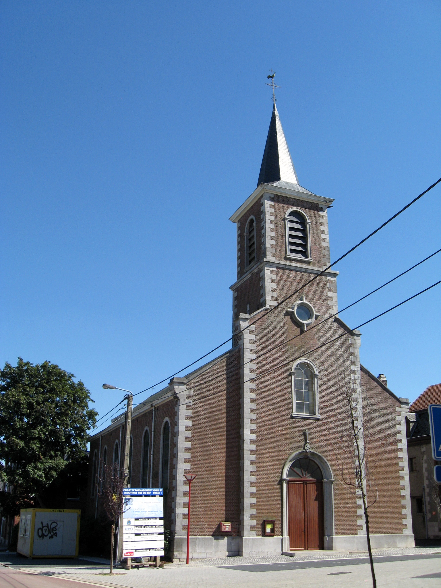 Church of Saint Alexander in Xhendelesse, Herve, Liège, Belgium